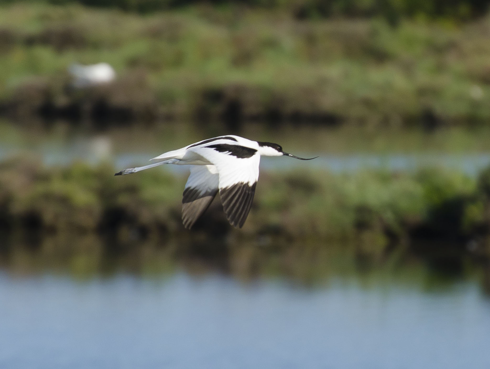 Pied Avocet, Venetian Lagoon, Italy.